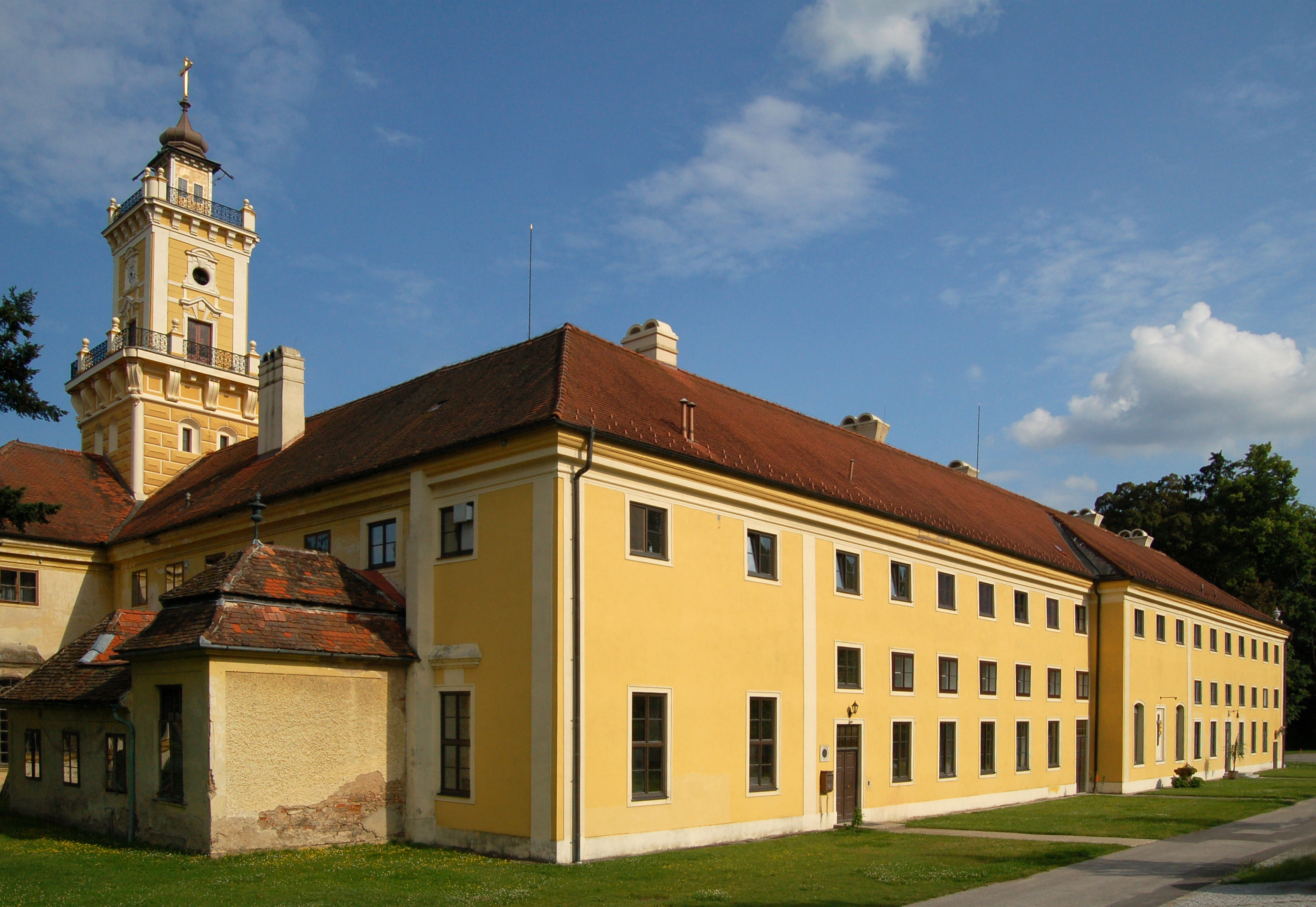 The castle Jaidhof, Lower Austria, is a cultural heritage monument.